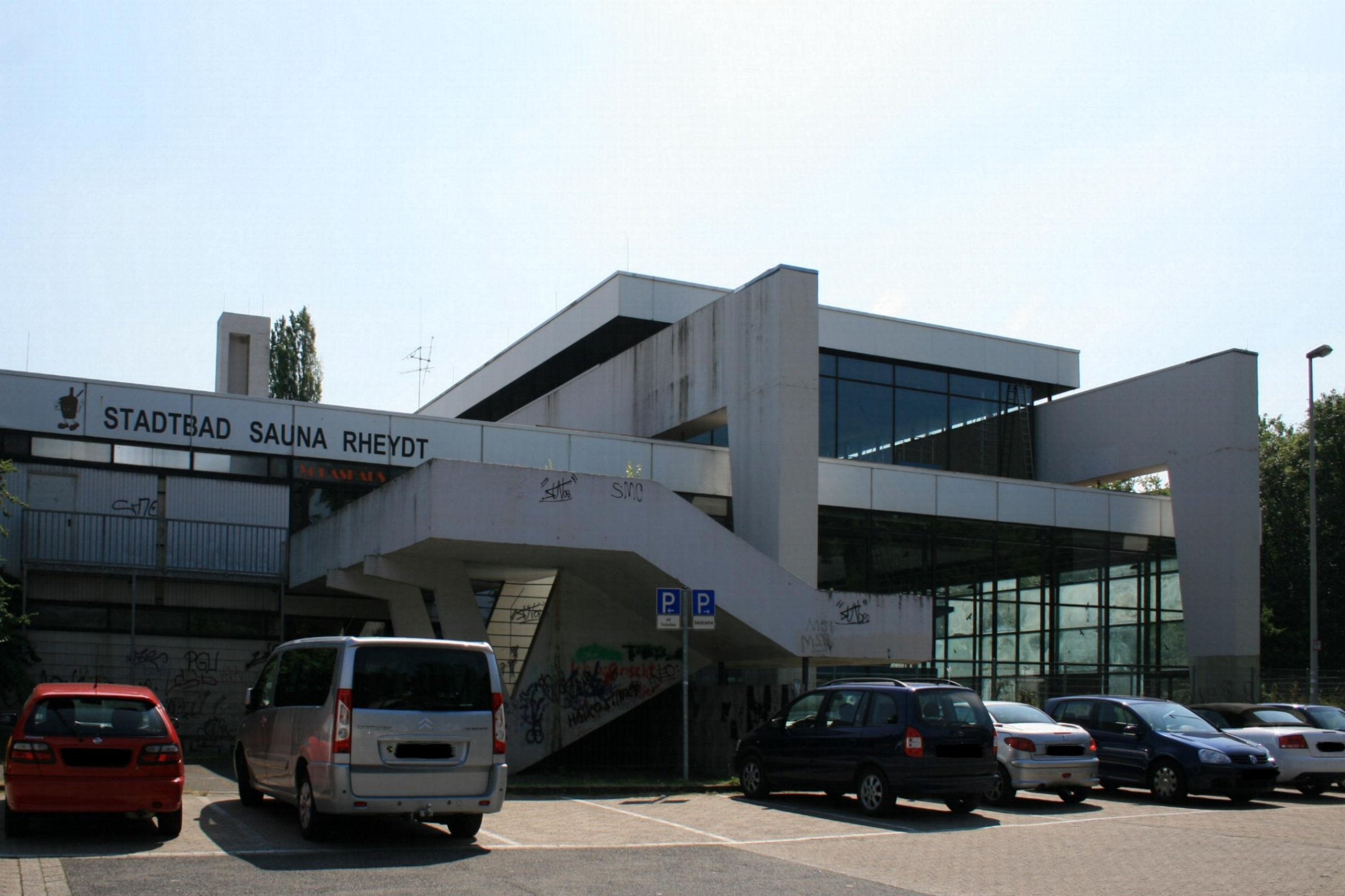 Cultural heritage monument No. P 019 in Mönchengladbach